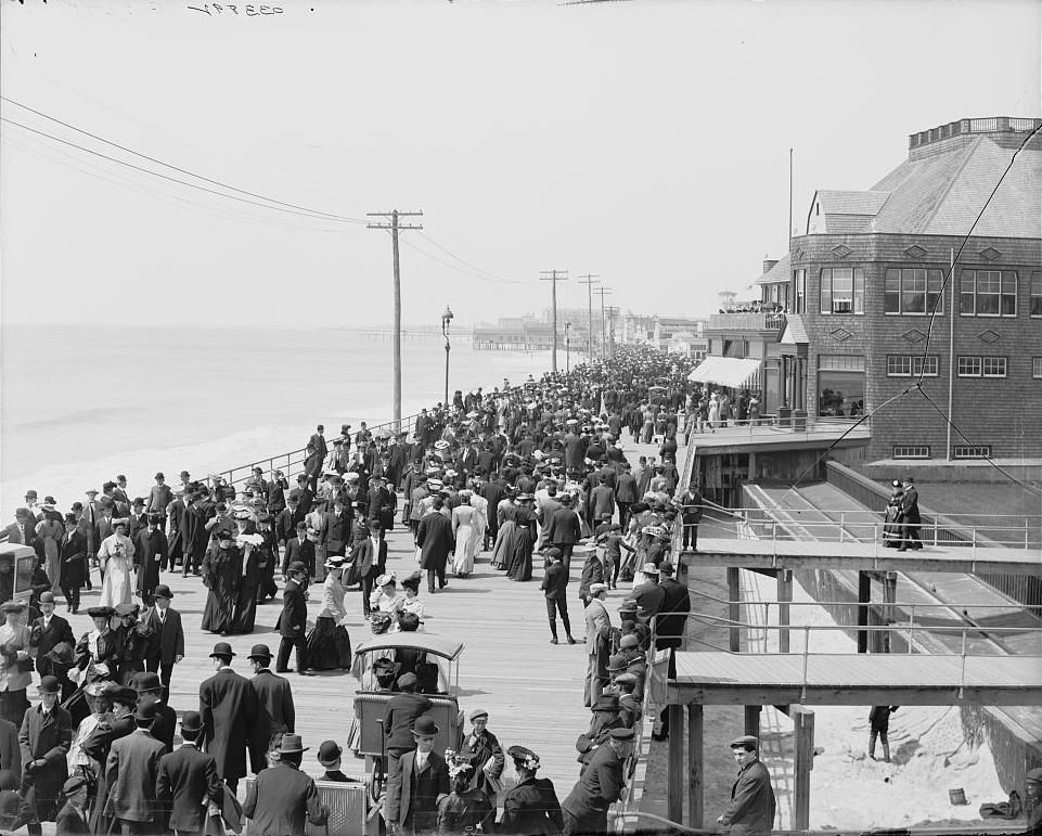 Atlantic City, New Jersey, south on the Boardwalk. Created/published between 1890 and 1910.